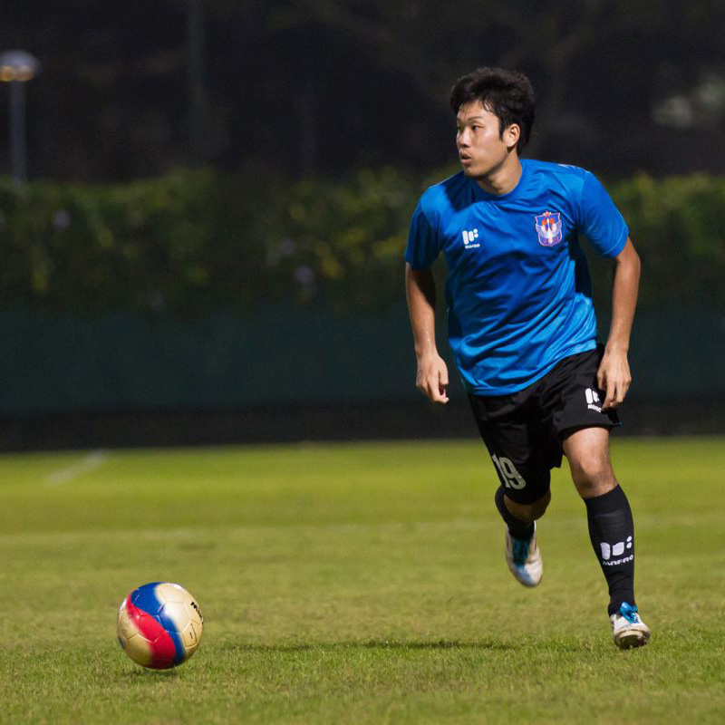 Hiroki Morisaki playing in a pre-season training match against Holland Park XI FC at Jurong East Stadium on 24 January 2014.